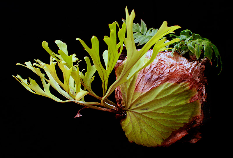 Platycerium ridleyi